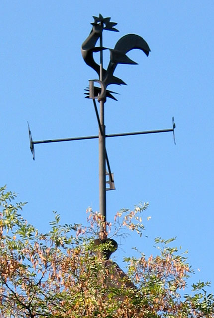 Barna Megyeri sculptor